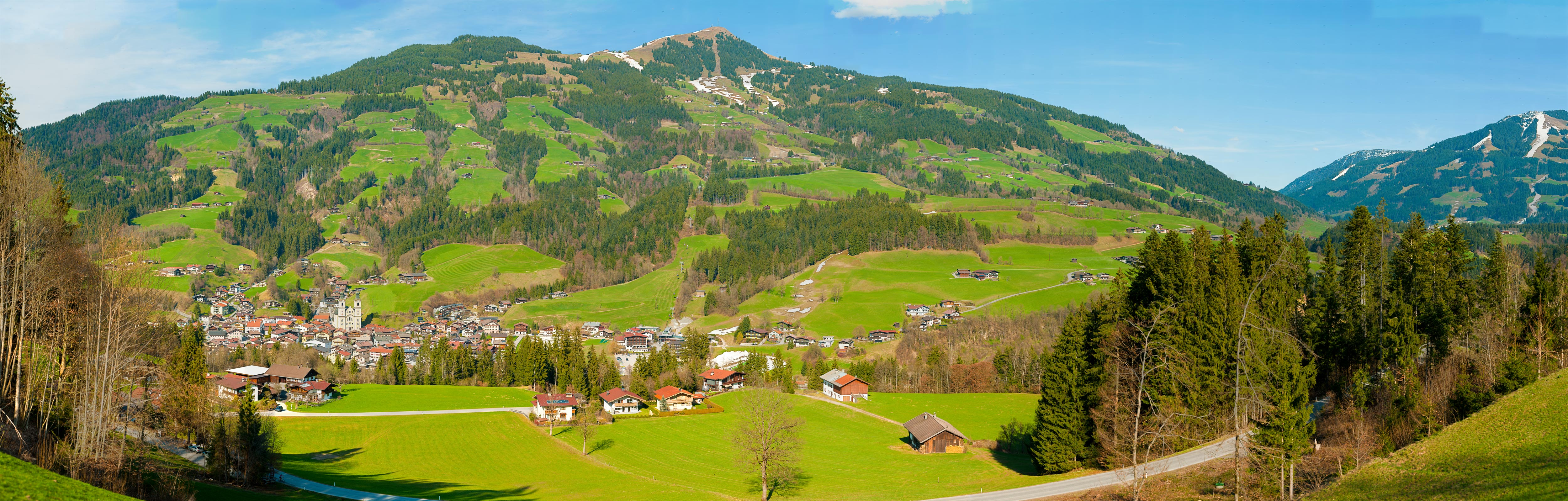 View onto Hopfgarten. Full Resolution image (159.356x50.944) is available at